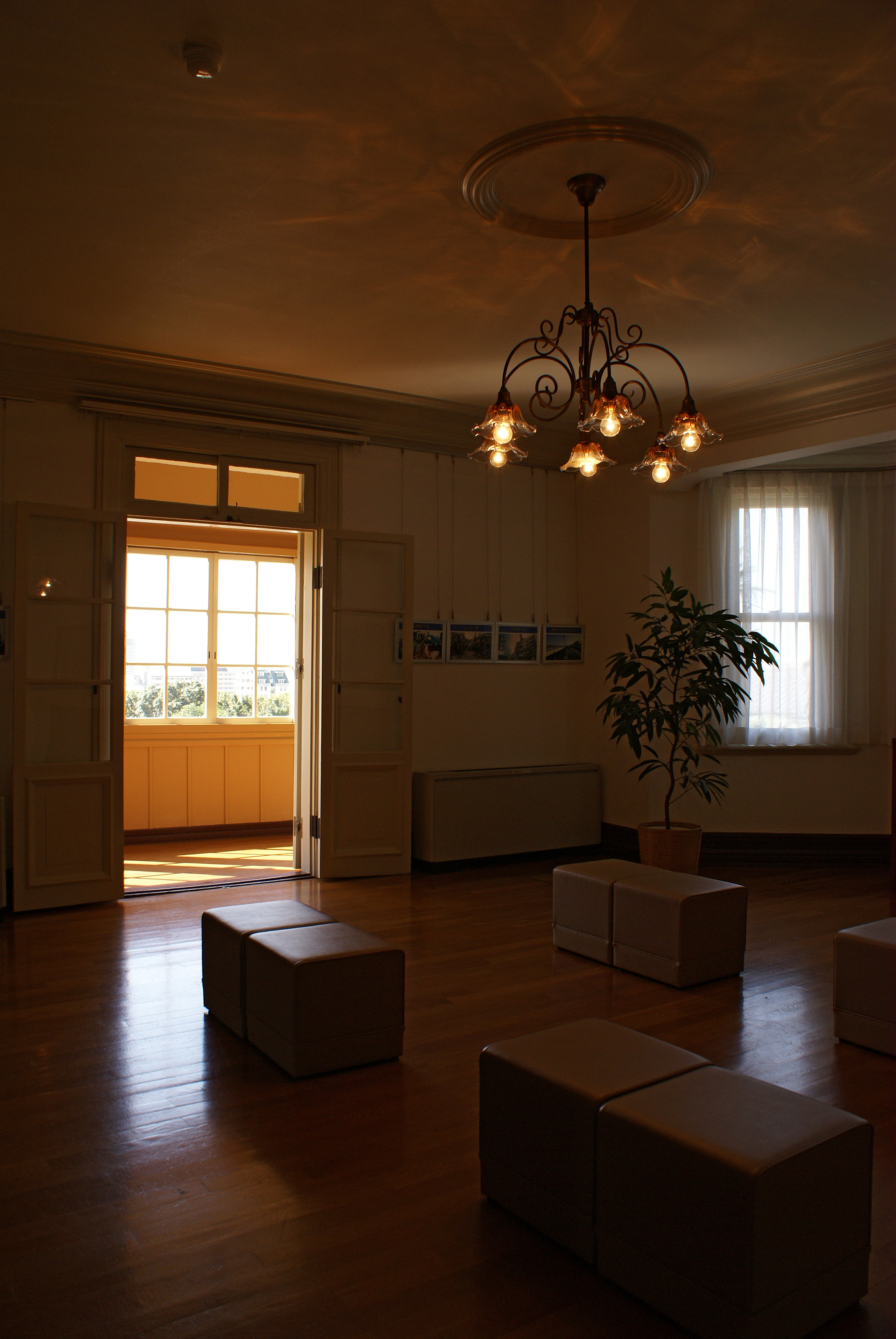 Old Drewell house in Kobe, Japan